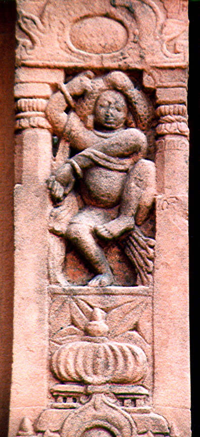 Photo 2827 Dwarf servants of Siva (Shiva) a primary god of the Hindu religion